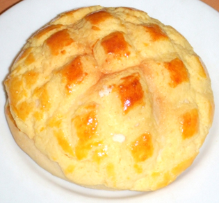 Pineapple bun